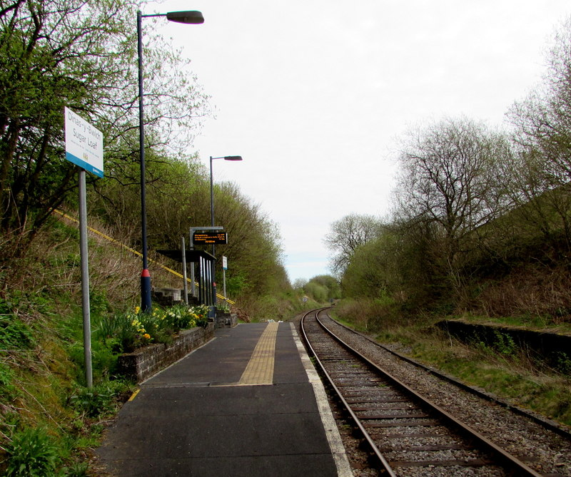 Sugar Loaf railway station in southern Powys